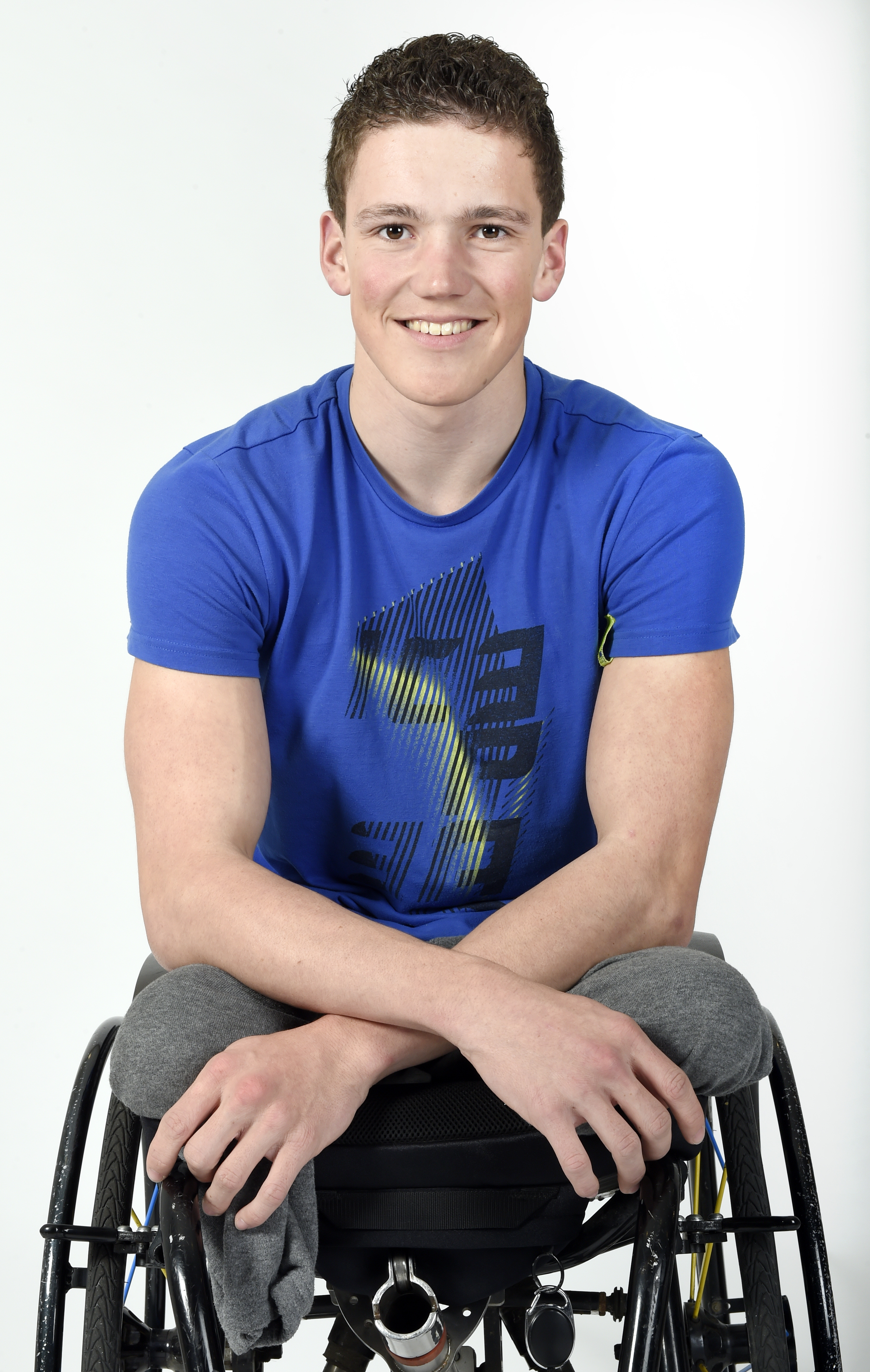 Niels de Langen paralympisch skiën zitskiër